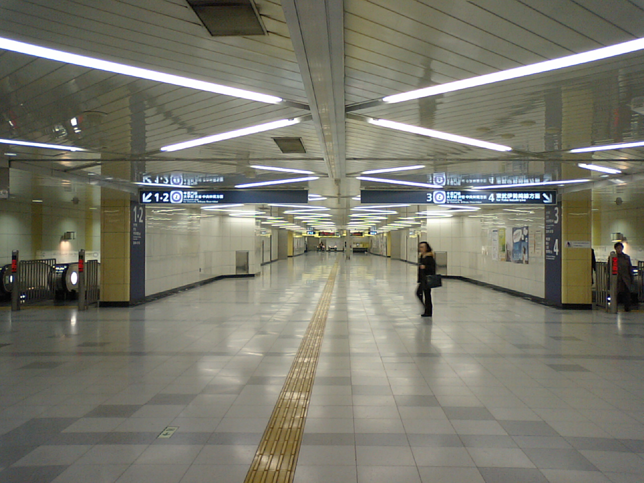 Passageway of Oshiage station (Tokyo Metro and Tobu)